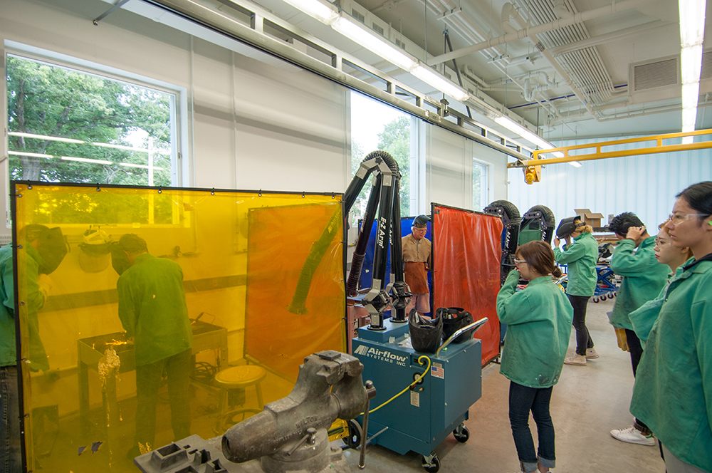 Learning how to use the plasma cutter in the sculpture studio of the University of Iowa Visual Arts Building.